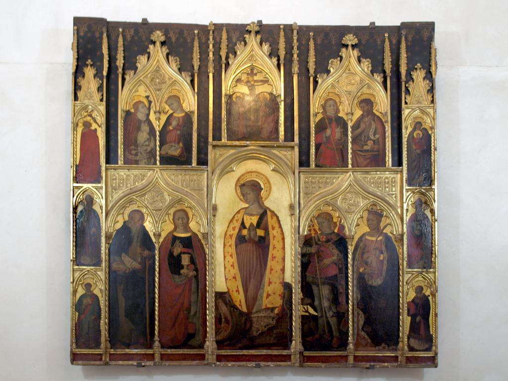 Fréjus (France), Cathedral, photo 2010